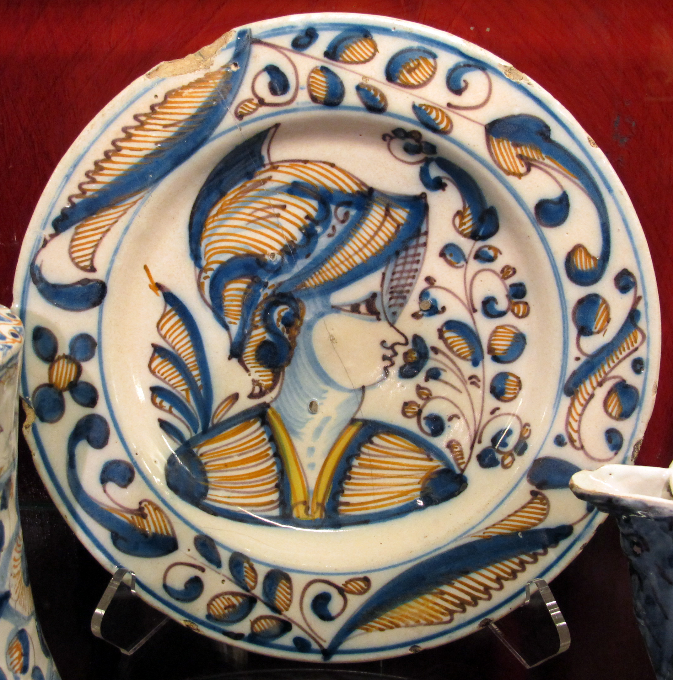 Spanish maiolica in the Hispanic Society of America